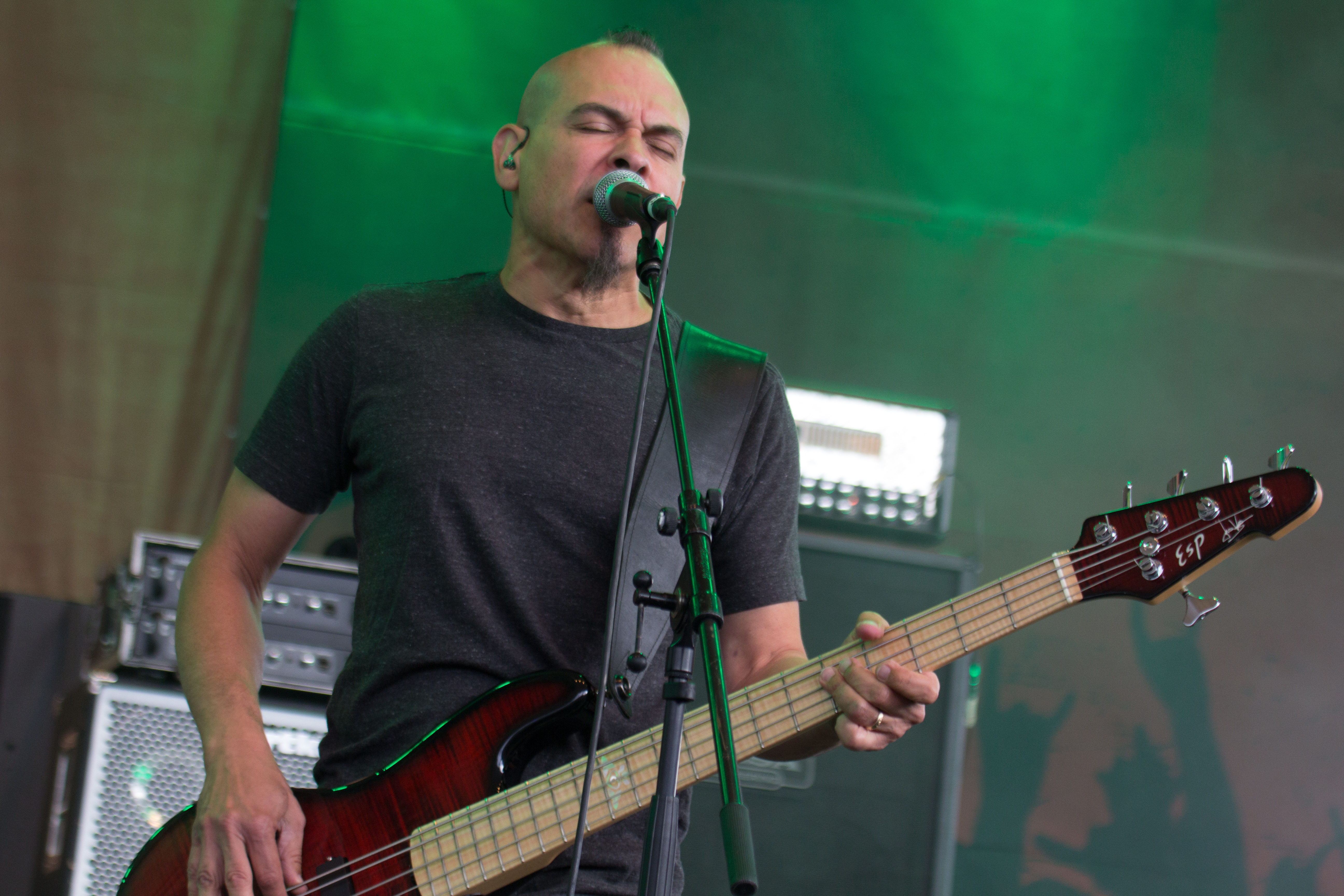 Fates Warning performing live at Rock Hard Festival 2017, Gelsenkirchen, Germany